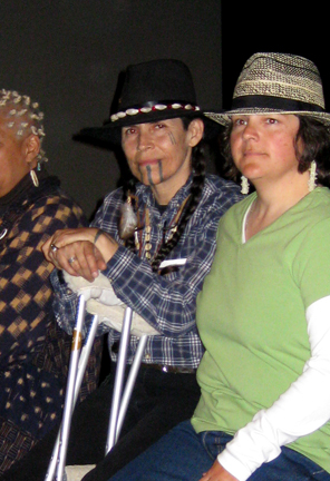 L. Frank, Tongva-Ajachmen basketweaver, singer, and Native language activist from California